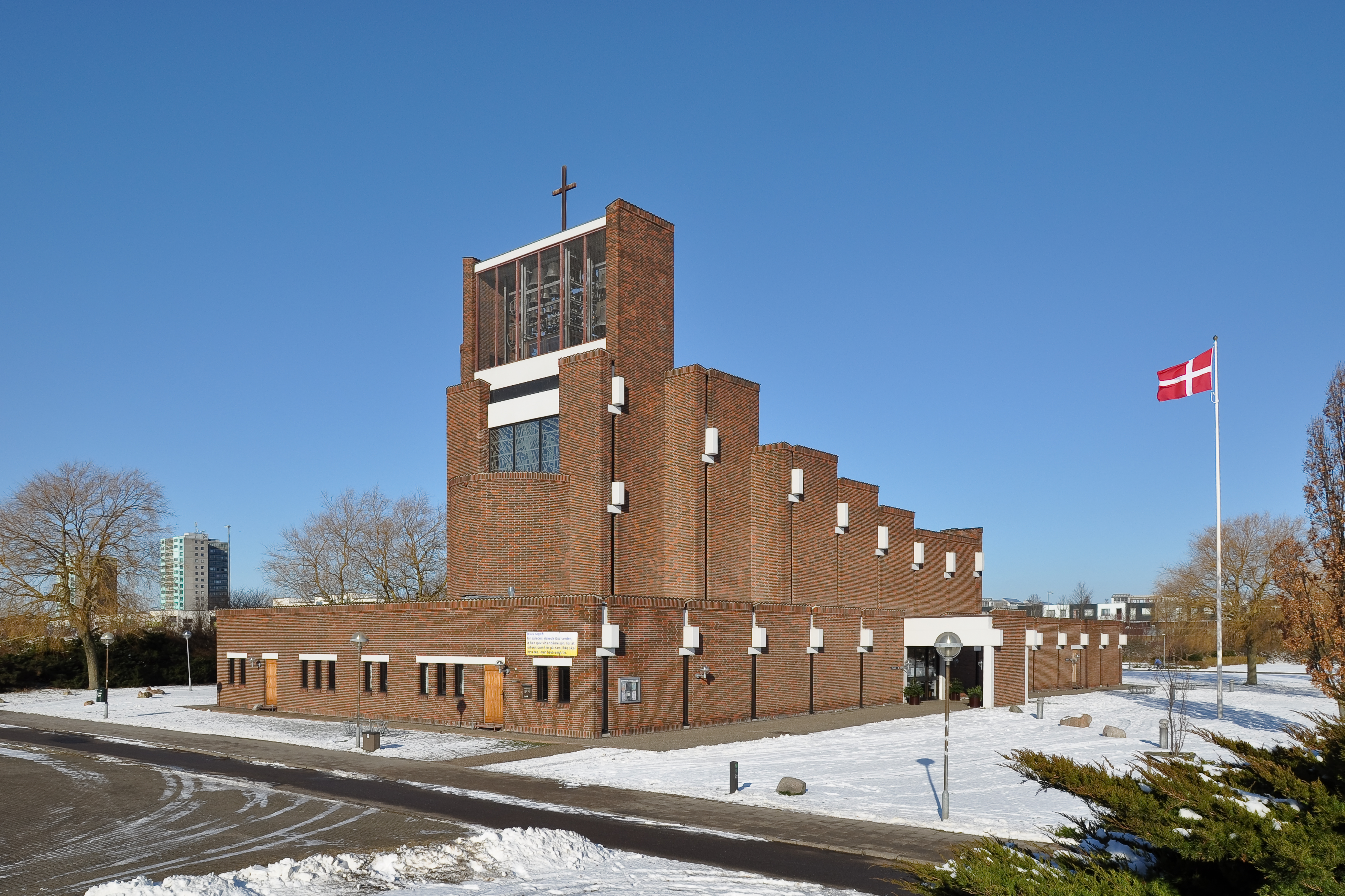 Brøndby Strand Church, Brøndby, Denmark.